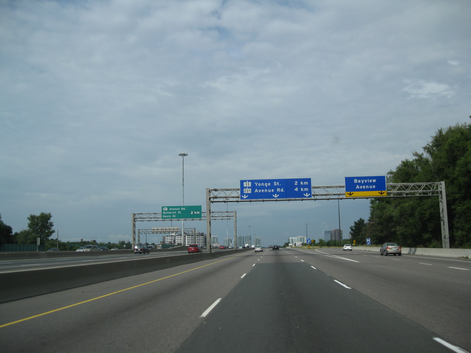 King's Highway 401 - Ontario